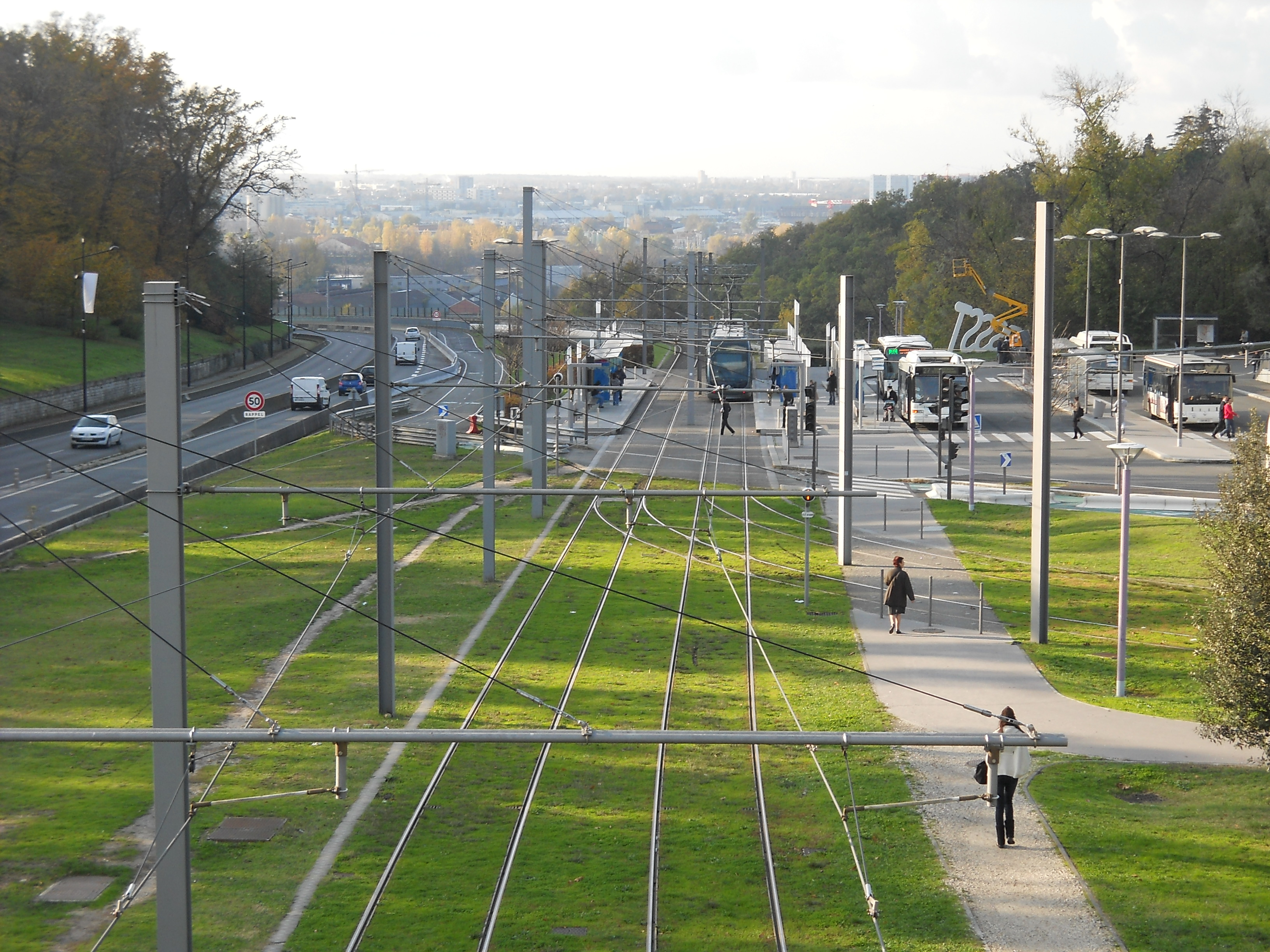 Photo of Station Buttinière in Cenon, Bordeaux, France.